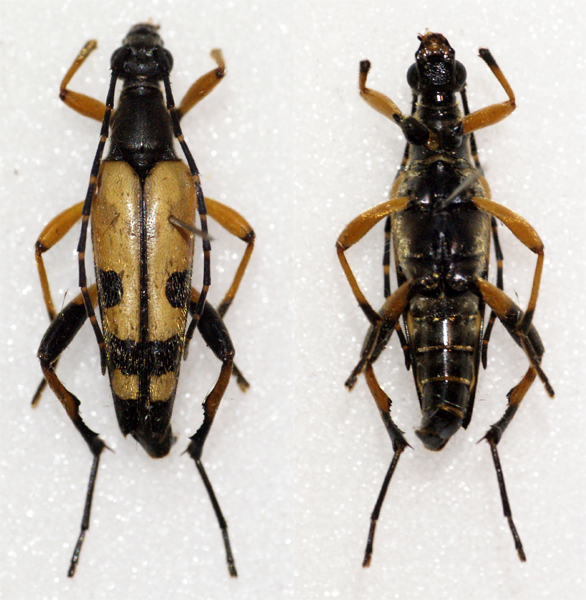 Poda,1761 Sex: ? Data: 05-7-13 - Sawbridgeworth Marsh - Herts - UK Size: ?